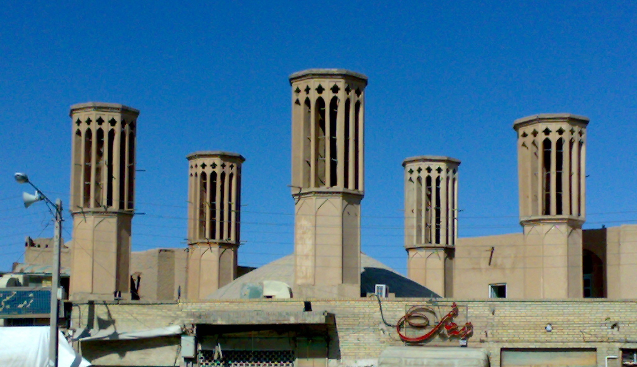 Windcatcher in Yazd province, Iran.